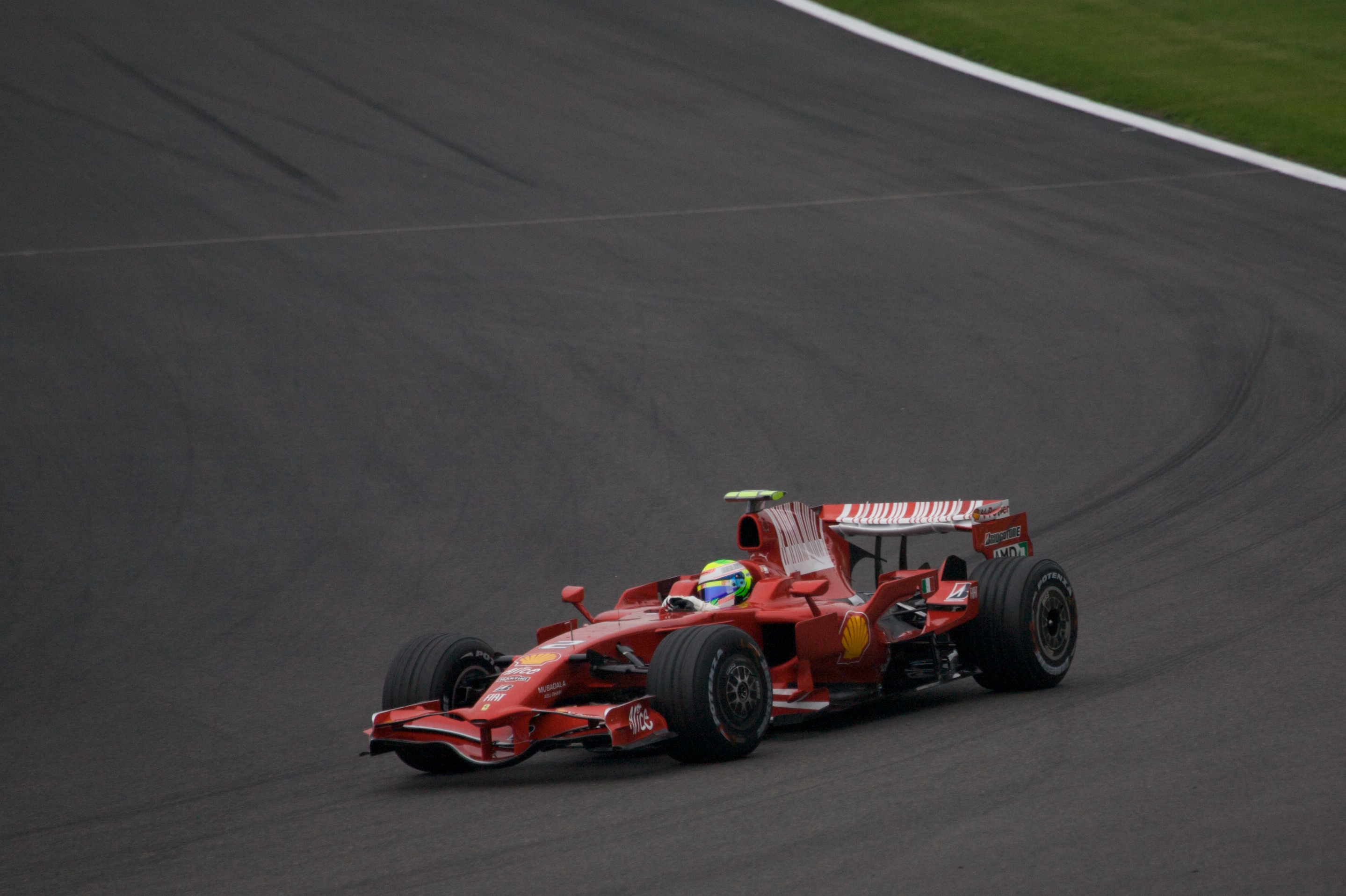 Felipe Massa driving for Scuderia Ferrari at the 2008 Belgian Grand Prix.